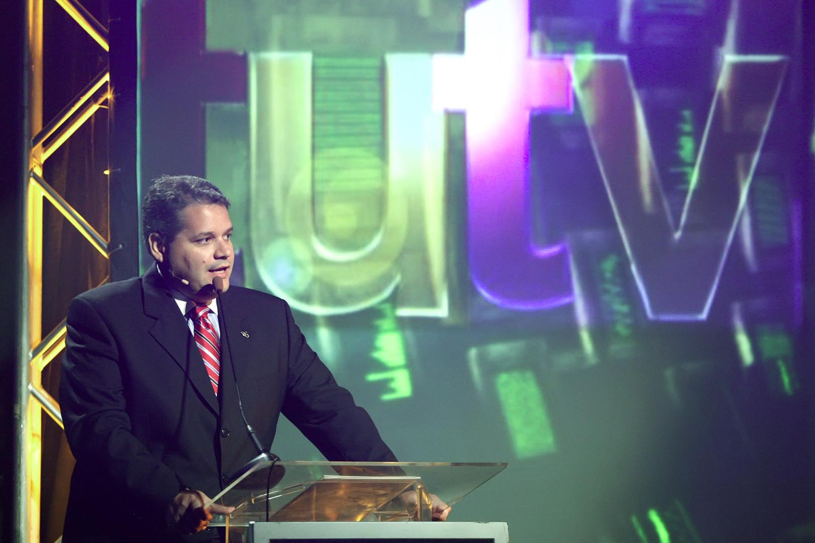 Montilla at launching of TUTV HD facilities